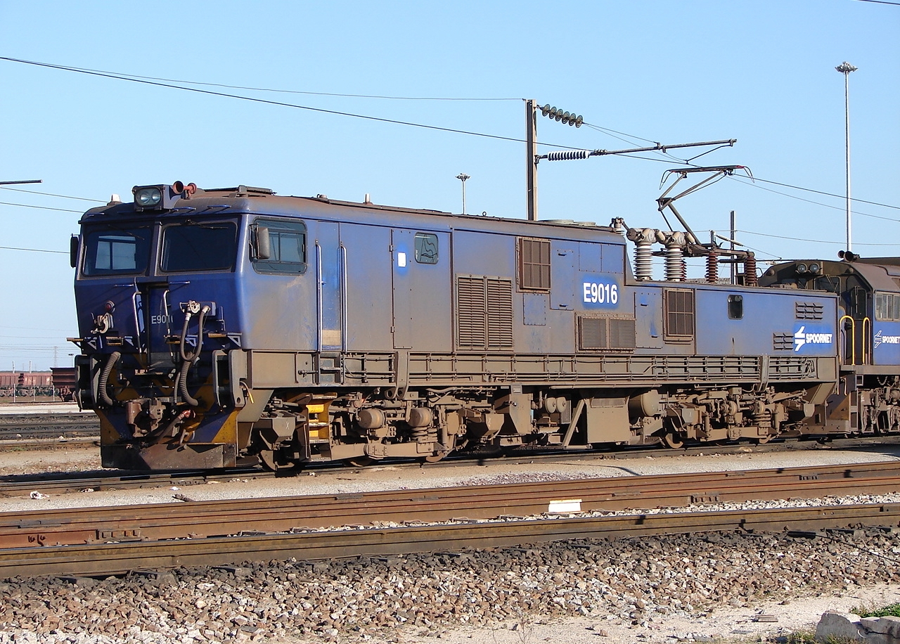 SAR Class 9E Series 1 E9016 Builder's Number: GEC 5561 Location: Saldanha, Western Cape